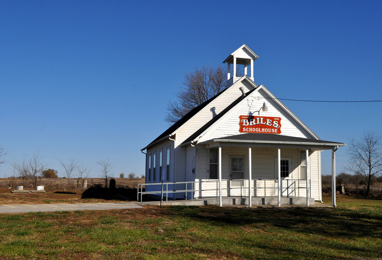 Briles School located on Highway 68 and Texas Road, Peoria Township, Franklin County, Kansas.